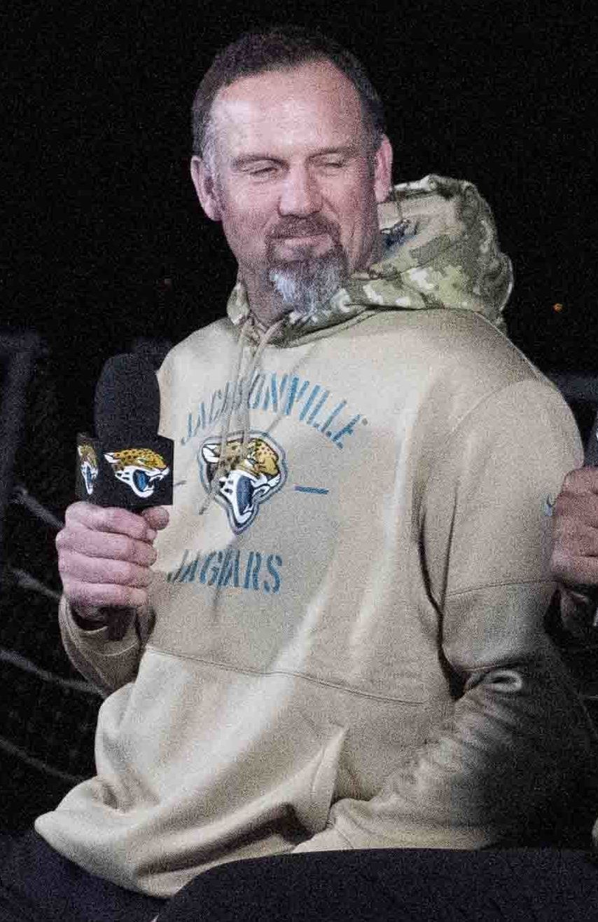 191121-N-ED185-1078 NAVAL STATION MAYPORT, Fla. (Nov. 21, 2019) Action News Jax’s Brent Martineau (left), retired NFL defensive end Jeff Lageman and Jacksonville Jaguars defensive end Calais Campbell speak during a Jacksonville Jaguars All Access event aboard the guided missile destroyer USS Paul Ignatius (DDG 117). Jaguars All Access broadcasted their weekly show live aboard Paul Ignatius. (U.S. Navy photo by Mass Communication Specialist 1st Class Brian G. Reynolds/Released)